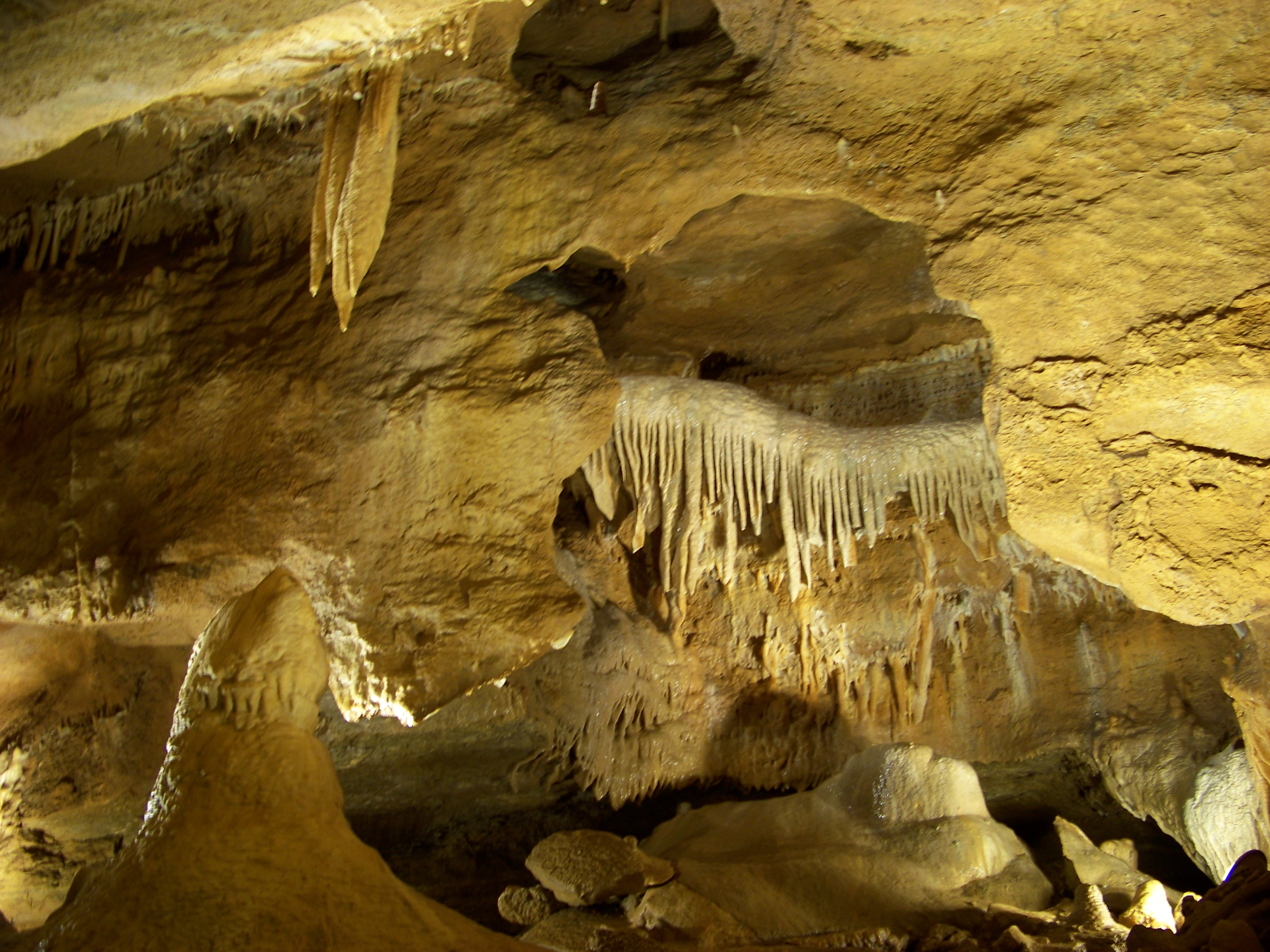 Koněprusy, Beroun District, Central Bohemian Region, the Czech Republic. Koněprusy Caves.